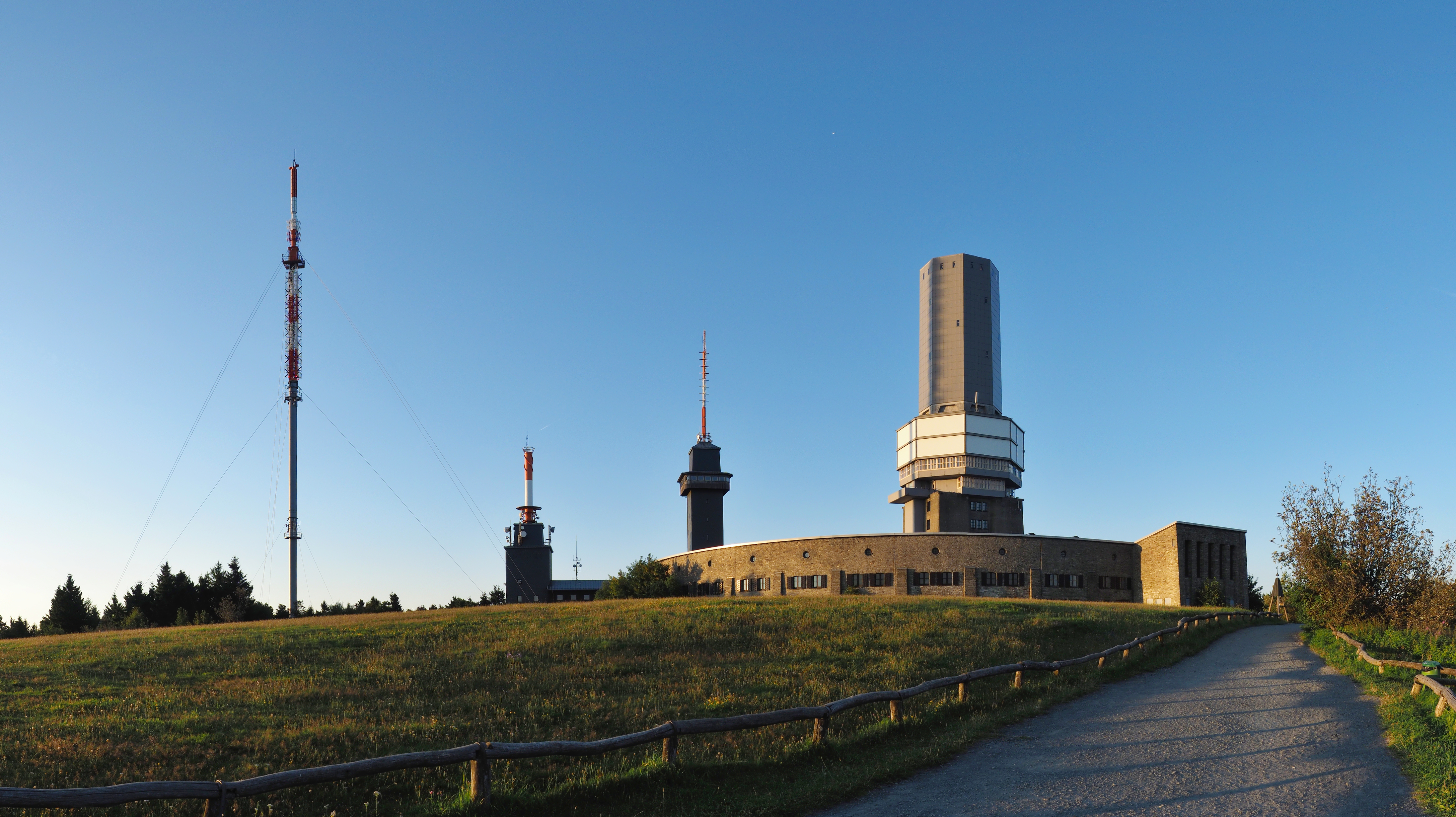 Buildings and towers on top of the Großer Feldberg, Taunus, Germany